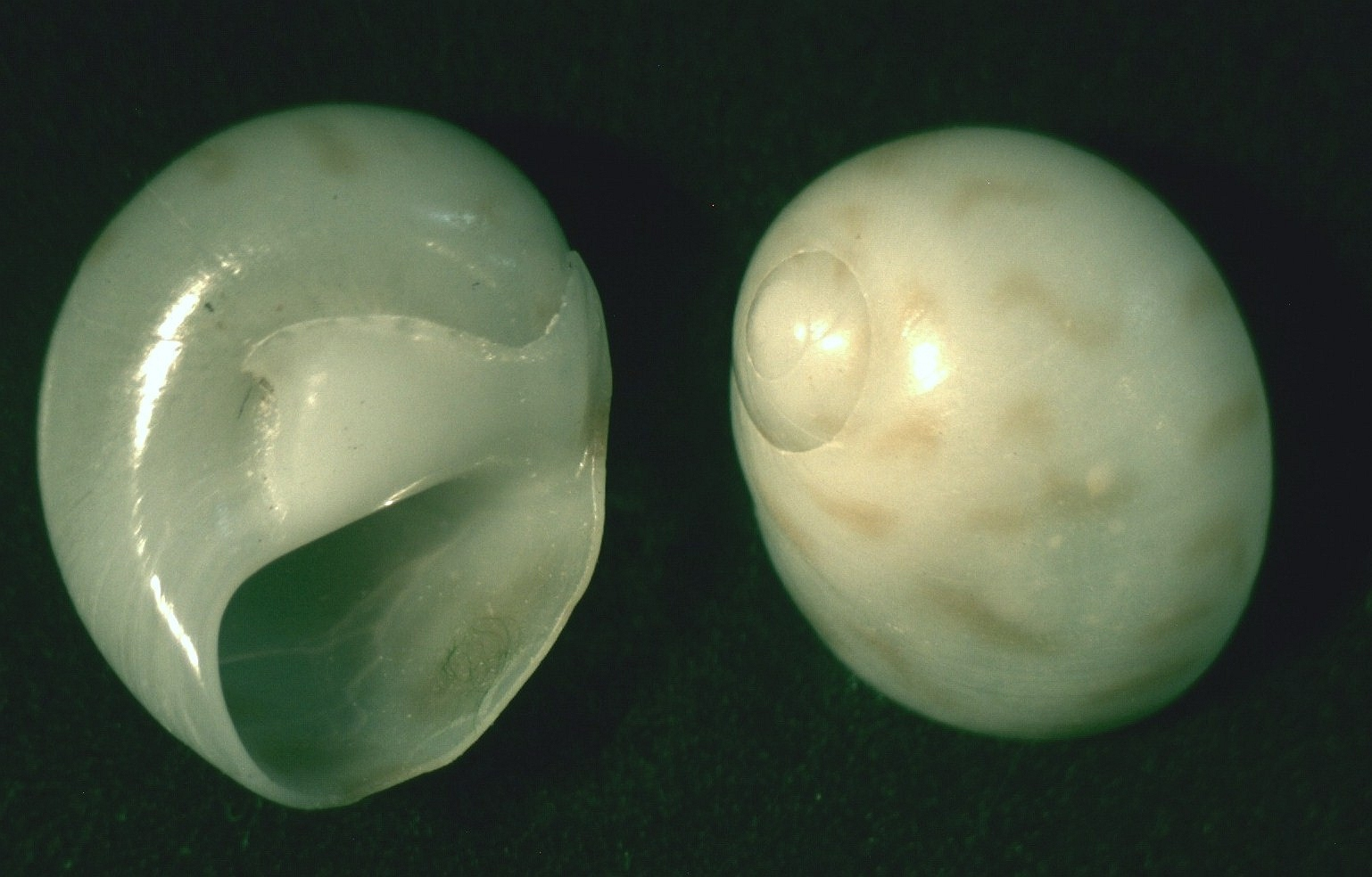 Tasmatica schoutanica W. L. May, 1912 a moon snail from the family Naticidae; South Australia